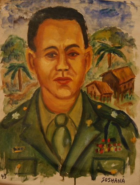 Brigadier General Carlos P. Romulo ( U.S. Army), oil on canvas, painted by Soshana, 1945